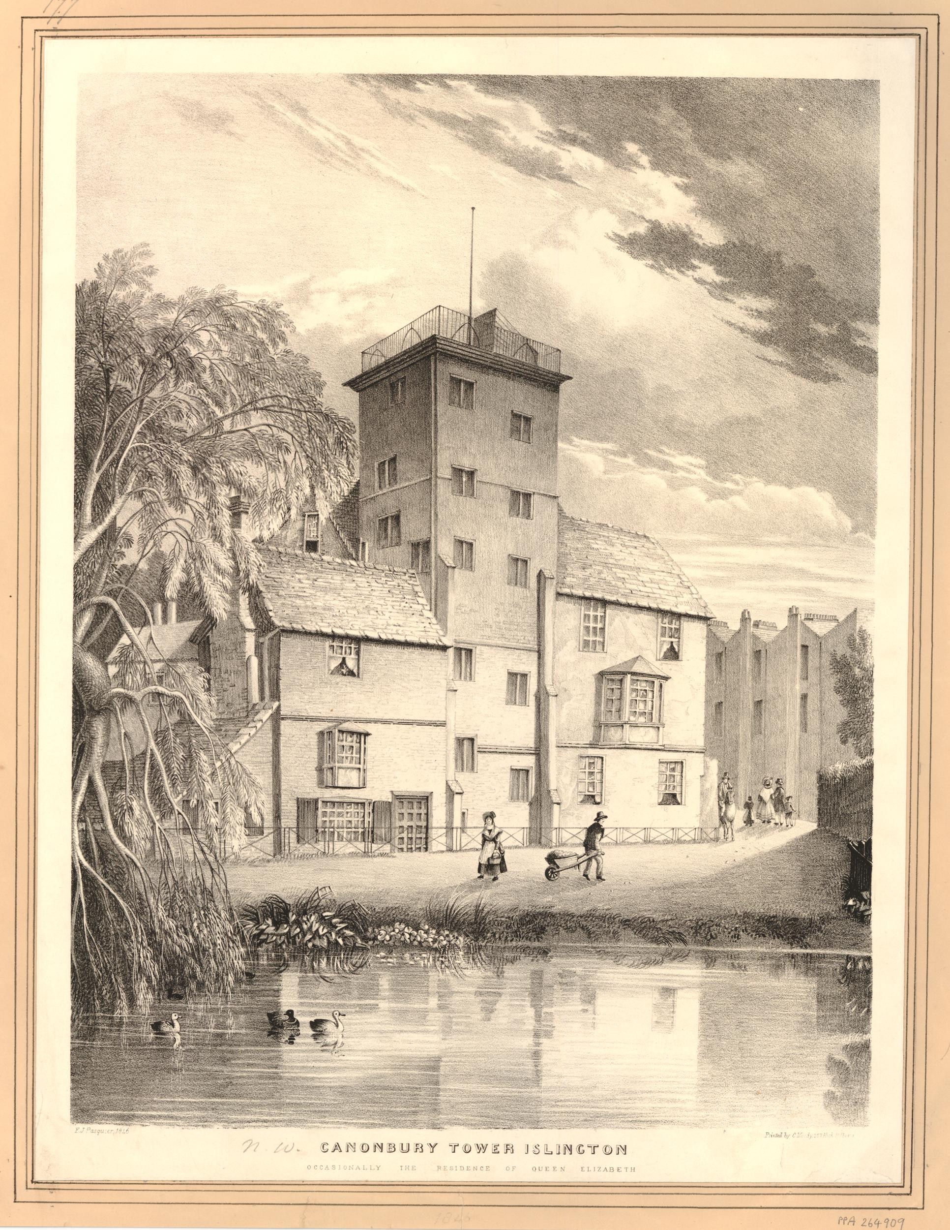 View of the tower and adjoining buildings next to the river in Islington; a weeping willow with ducks swimming below on the left; a woman walks along path by tower, a man pulls a wheelbarrow walking to the right, other figures on the bend of the lane. 1846 Lithograph